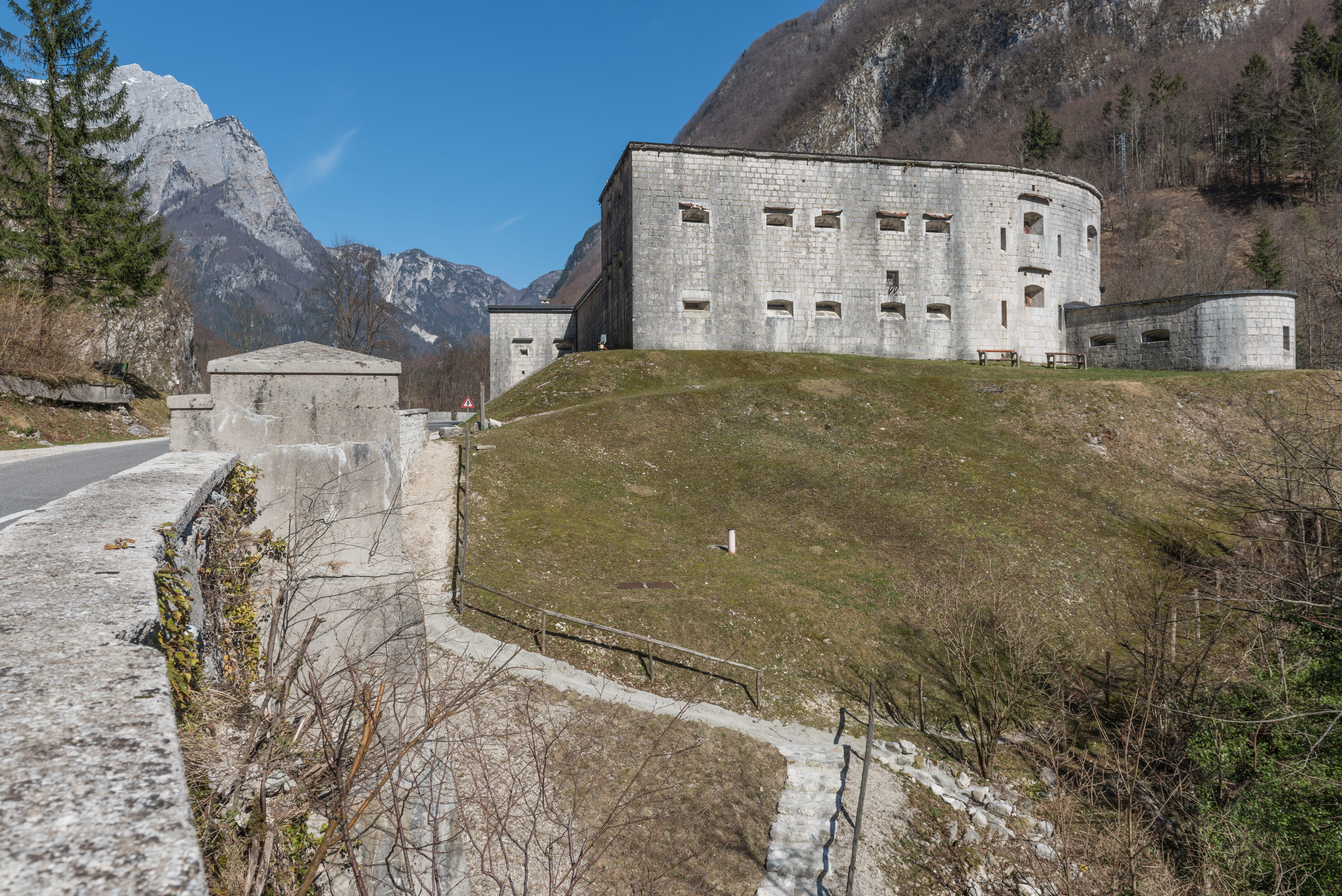 Fort Kluže, bastion of the First Worldwar, Bovec, Primorska, Slovenija, EU